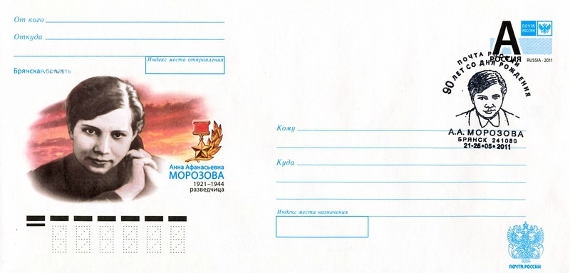 Envelope featuring Hero of the Soviet Union Anna Morozova